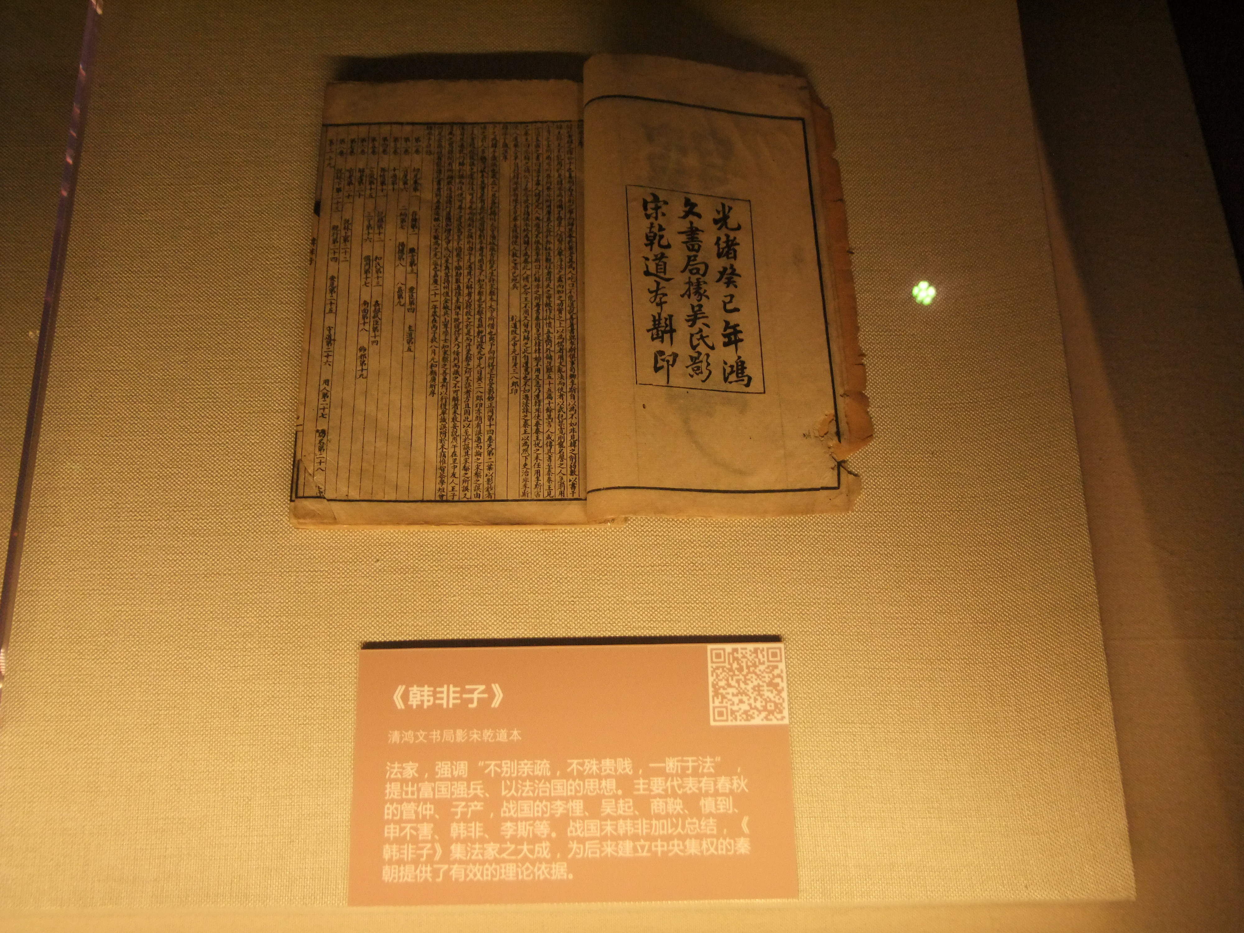 The book Hanfeizi or Han Feizi. An edition by Hongwen Book Company in the Guangxu period of the Qing dynasty (1644-1911). It is exhibited at the Hunan Provincial Museum.